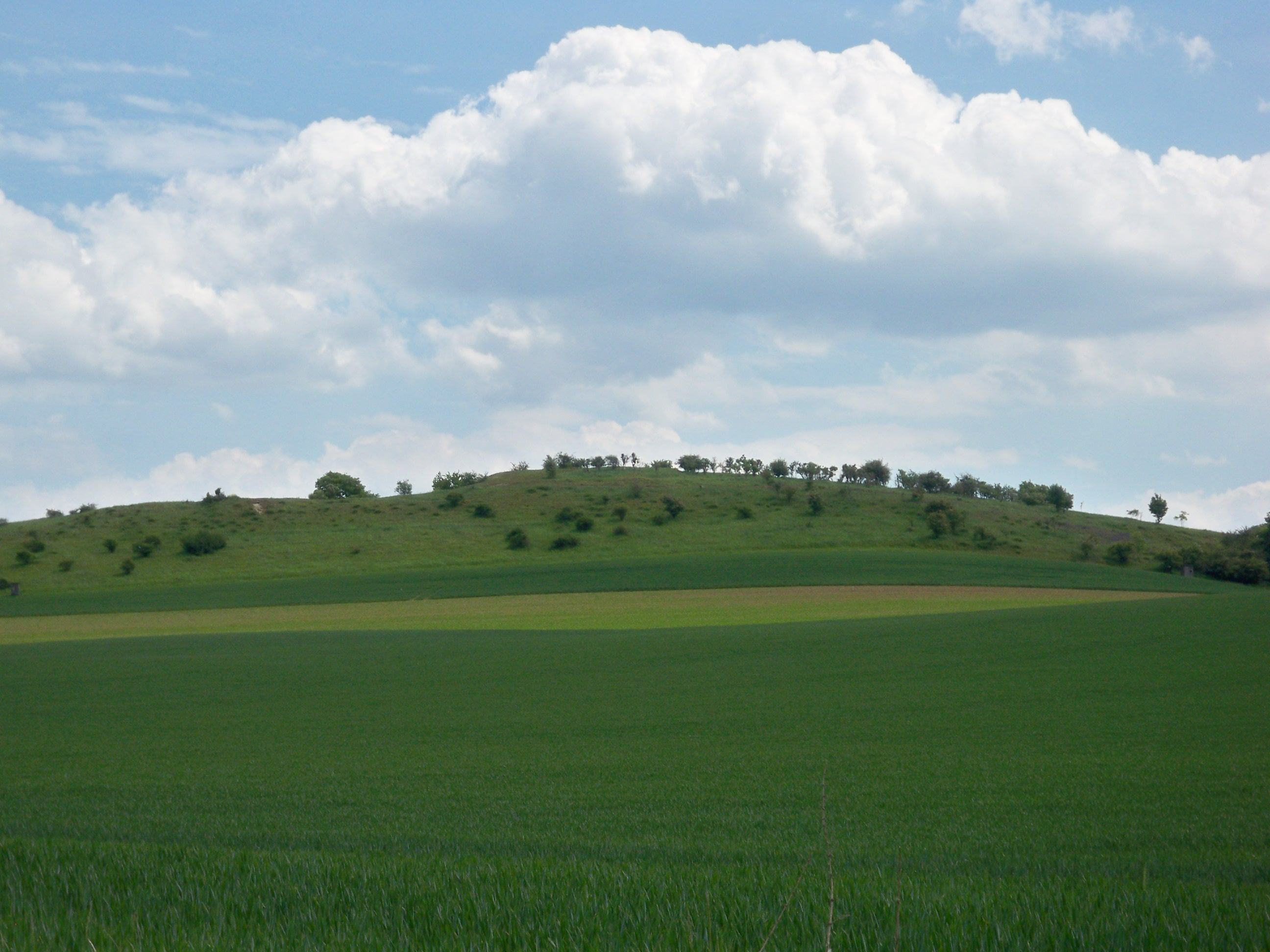 Ösel, Lower Saxony, view from west